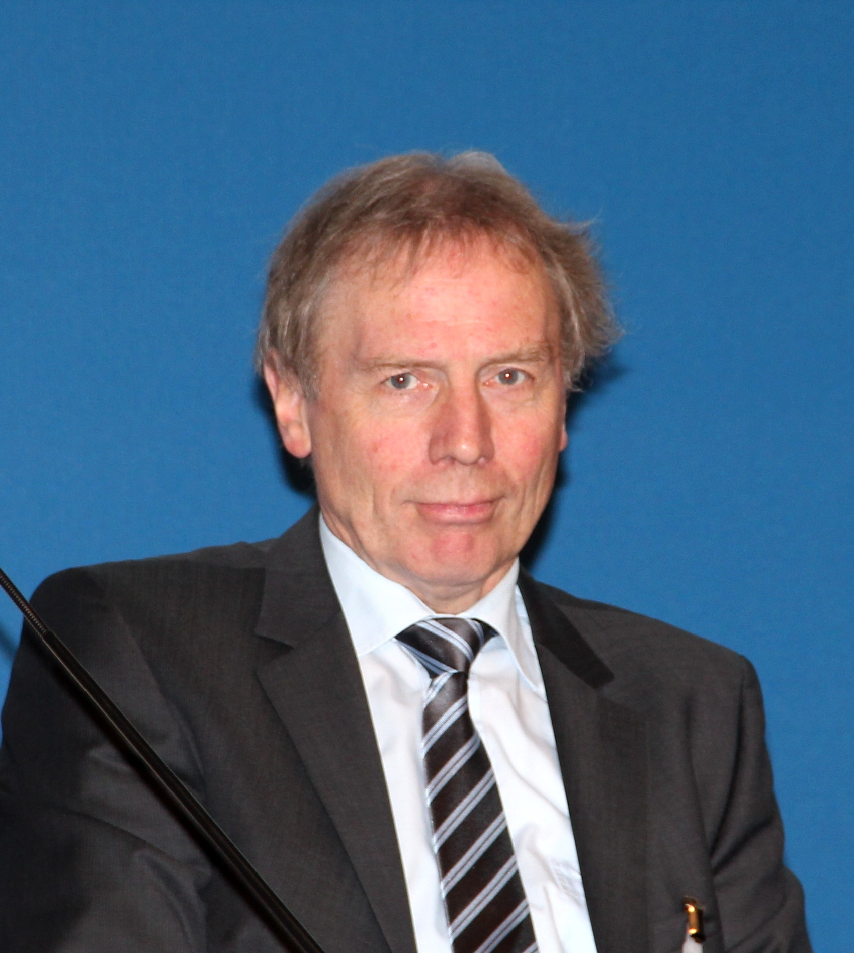 Karl Joachim Ebeling, German physicist, president of University Ulm